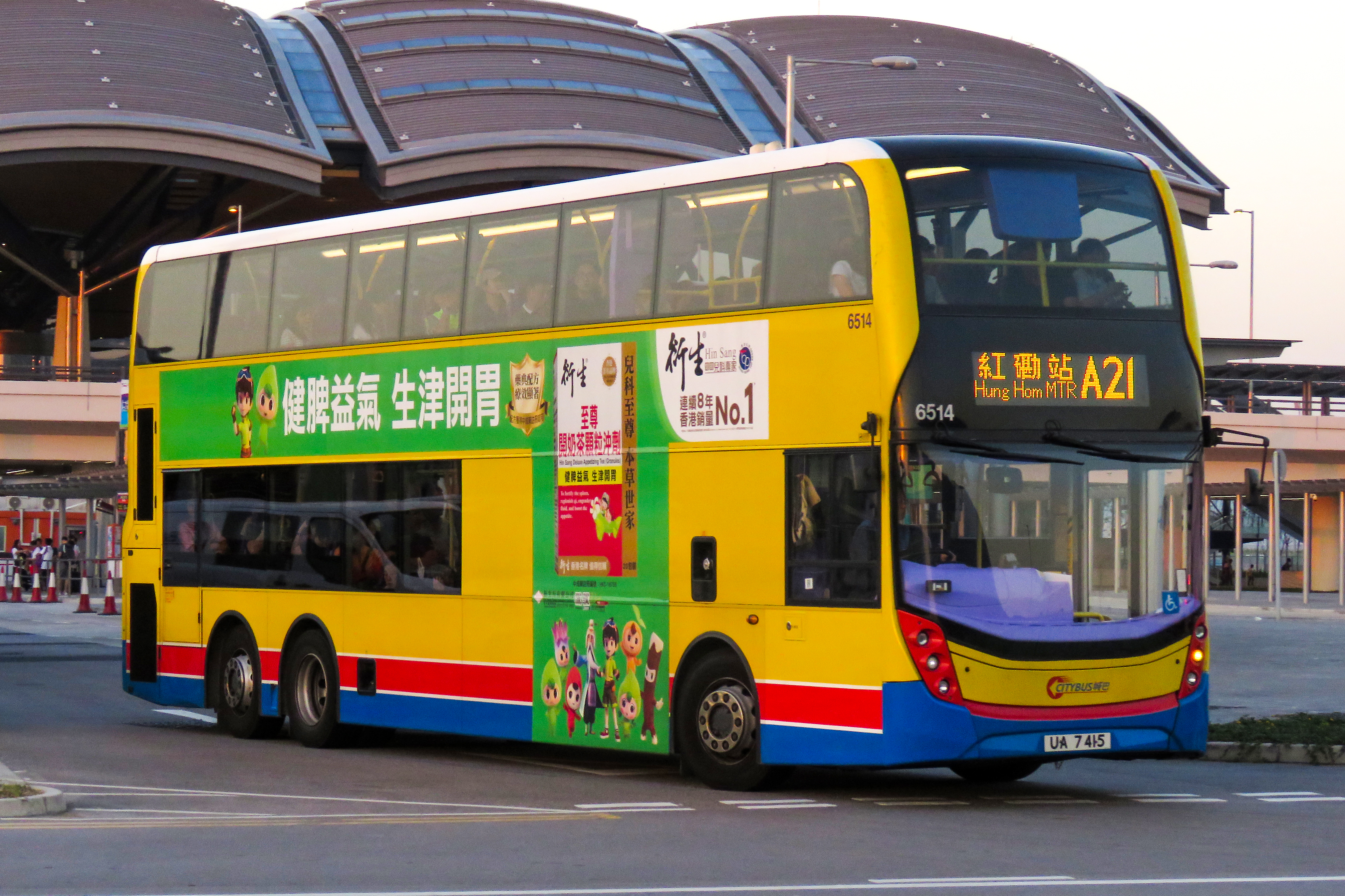 And here's a non-Flyer A21 which also starts from the bridgeport.